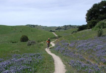 Trail and wildflowers in Fort Ord National Monument — in the Monterey Bay area, California.